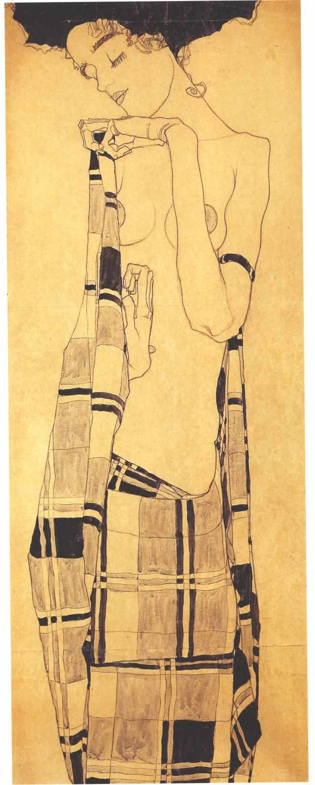 Staying girl with checkered cloth